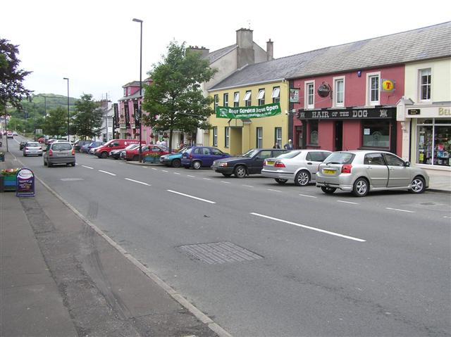 Belcoo Heading towards Blacklion